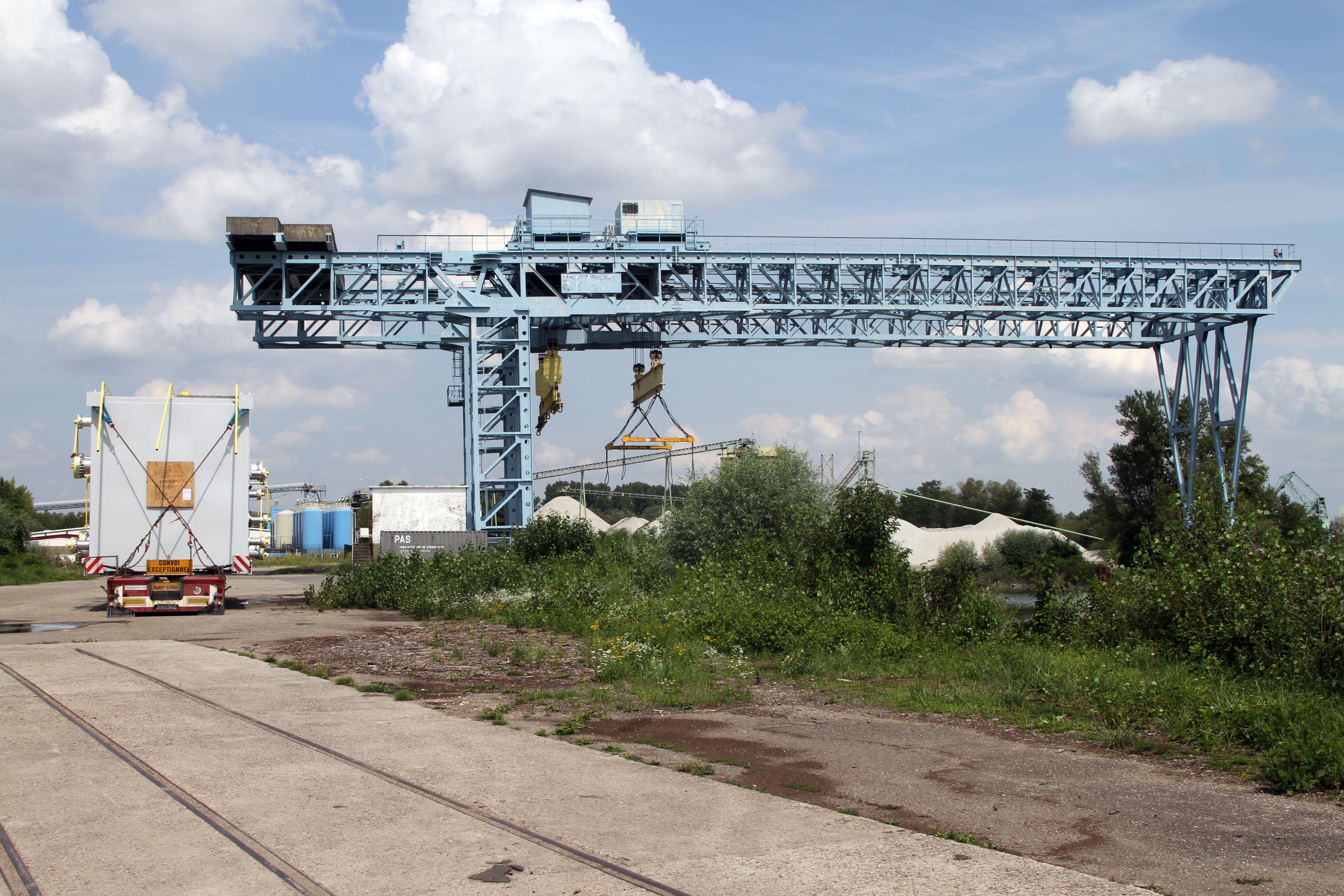 Lauterbourg harbour